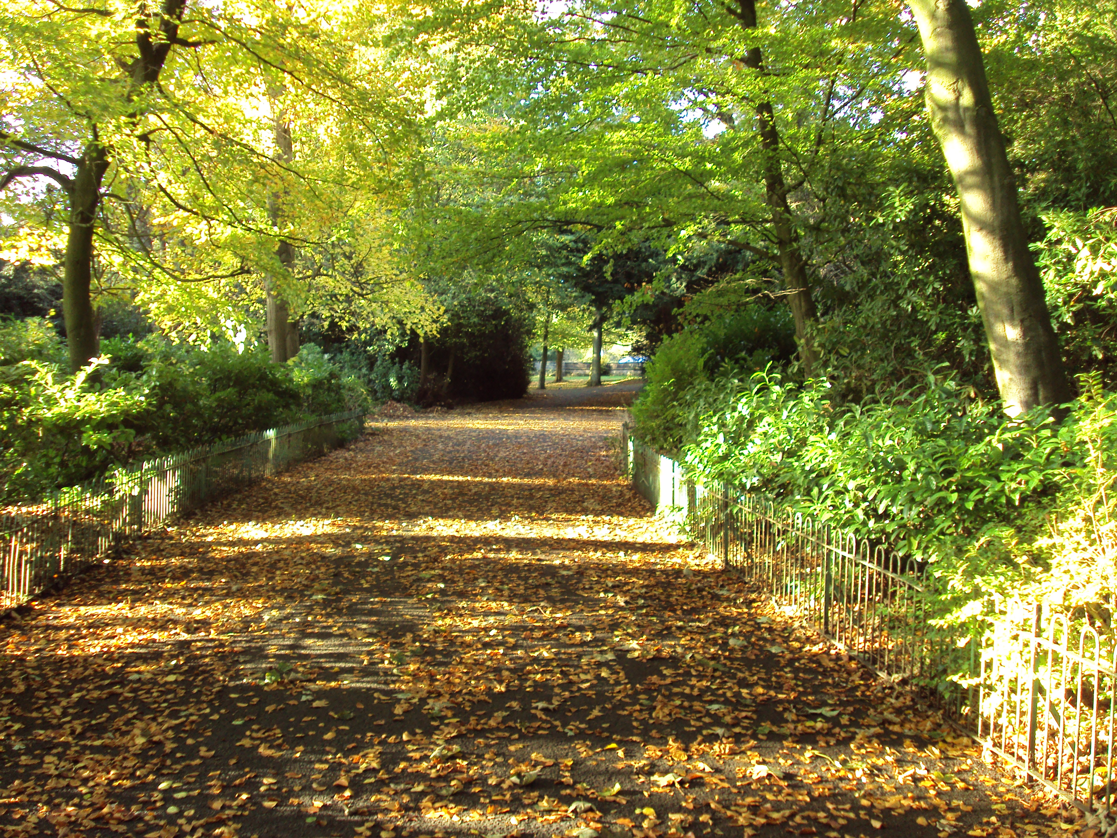 Path runs through Arrowe Park, Wirral, Merseyside, England.